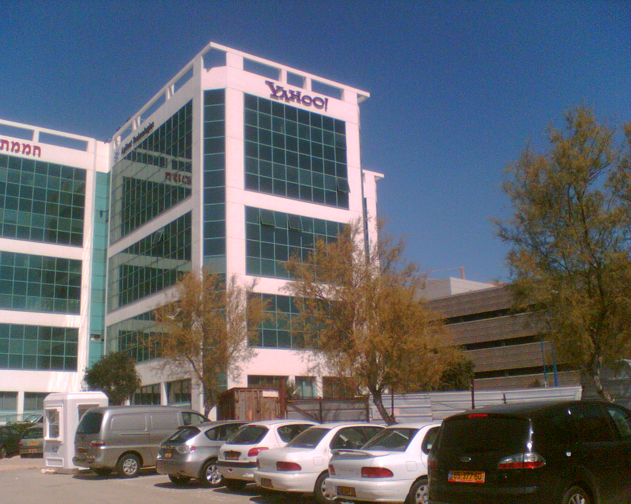 Yahoo! R&D center, Haifa